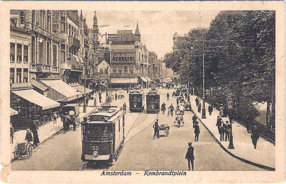 Old postcard of Amsterdam.